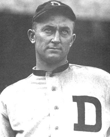 Photograph of Ty Cobb from 1914. Published in 1914 and subject to public domain usage in United States.